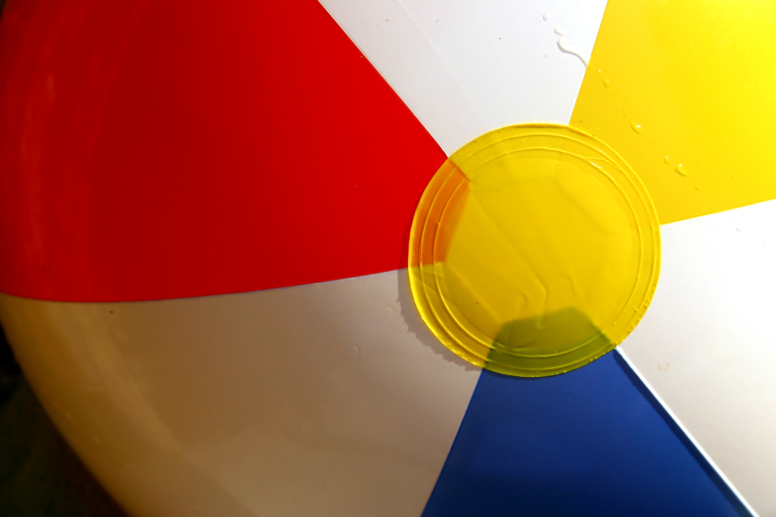 Postcard on Zazzle